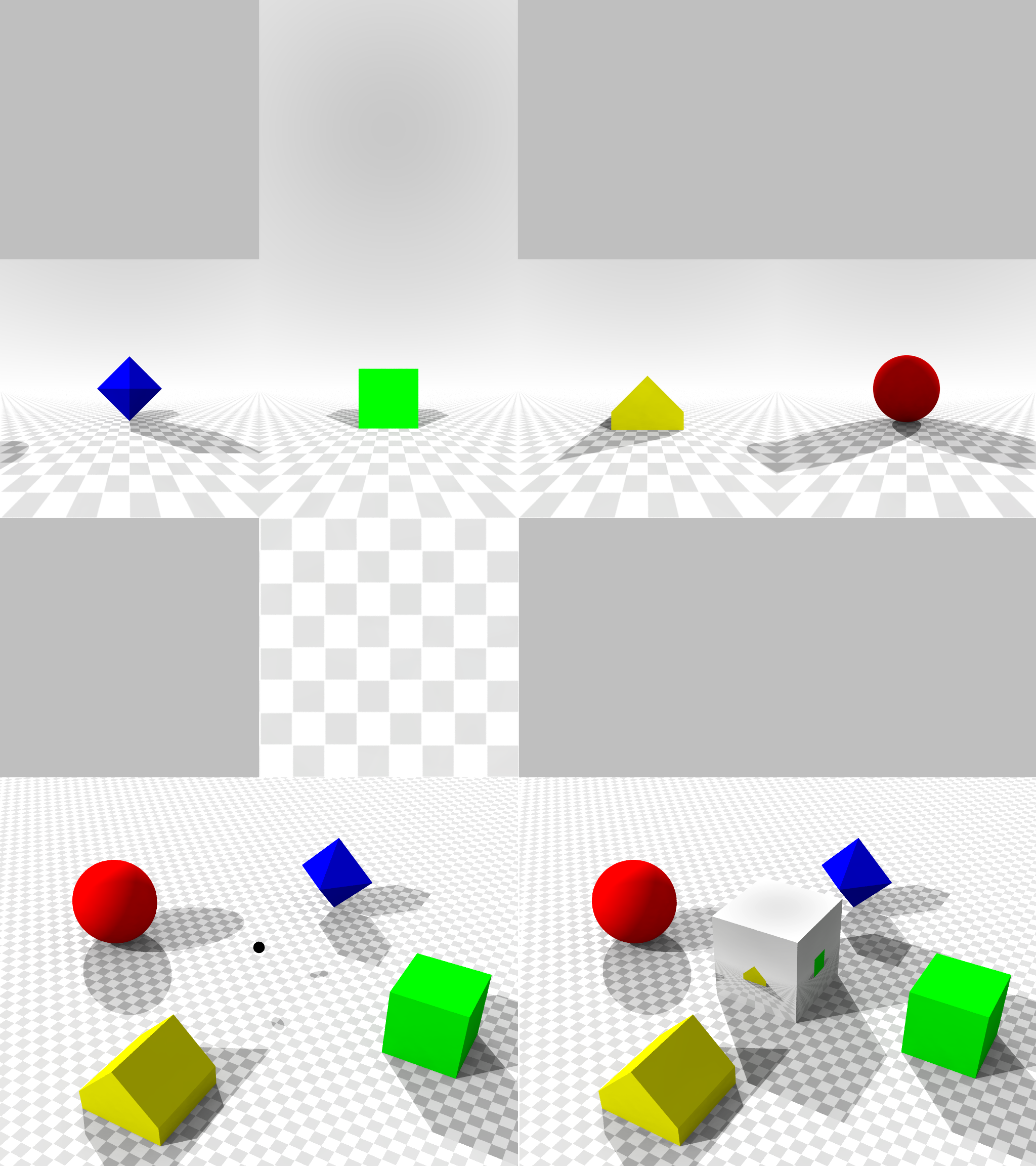 Example scene demonstrating cube mapped panoramic images.